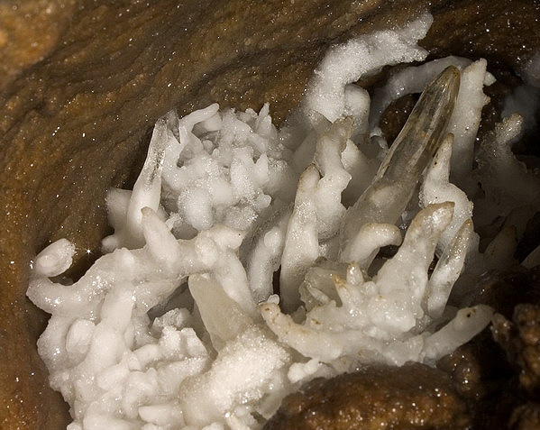 Speleothem in No. 2. Cavity of Upper Tunnel in Esztramos.